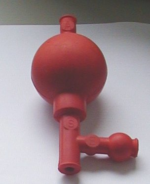 Pipette filler